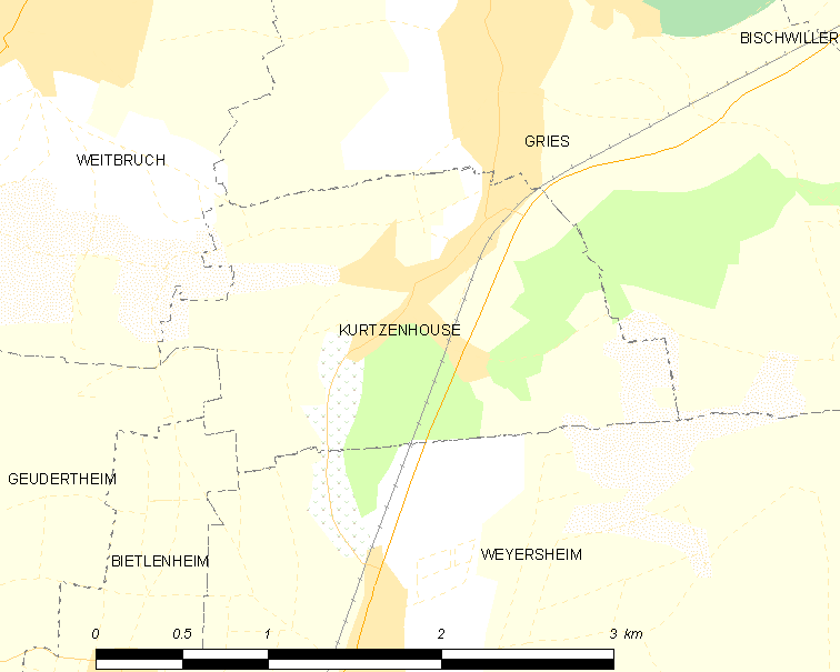 Map of French municipality